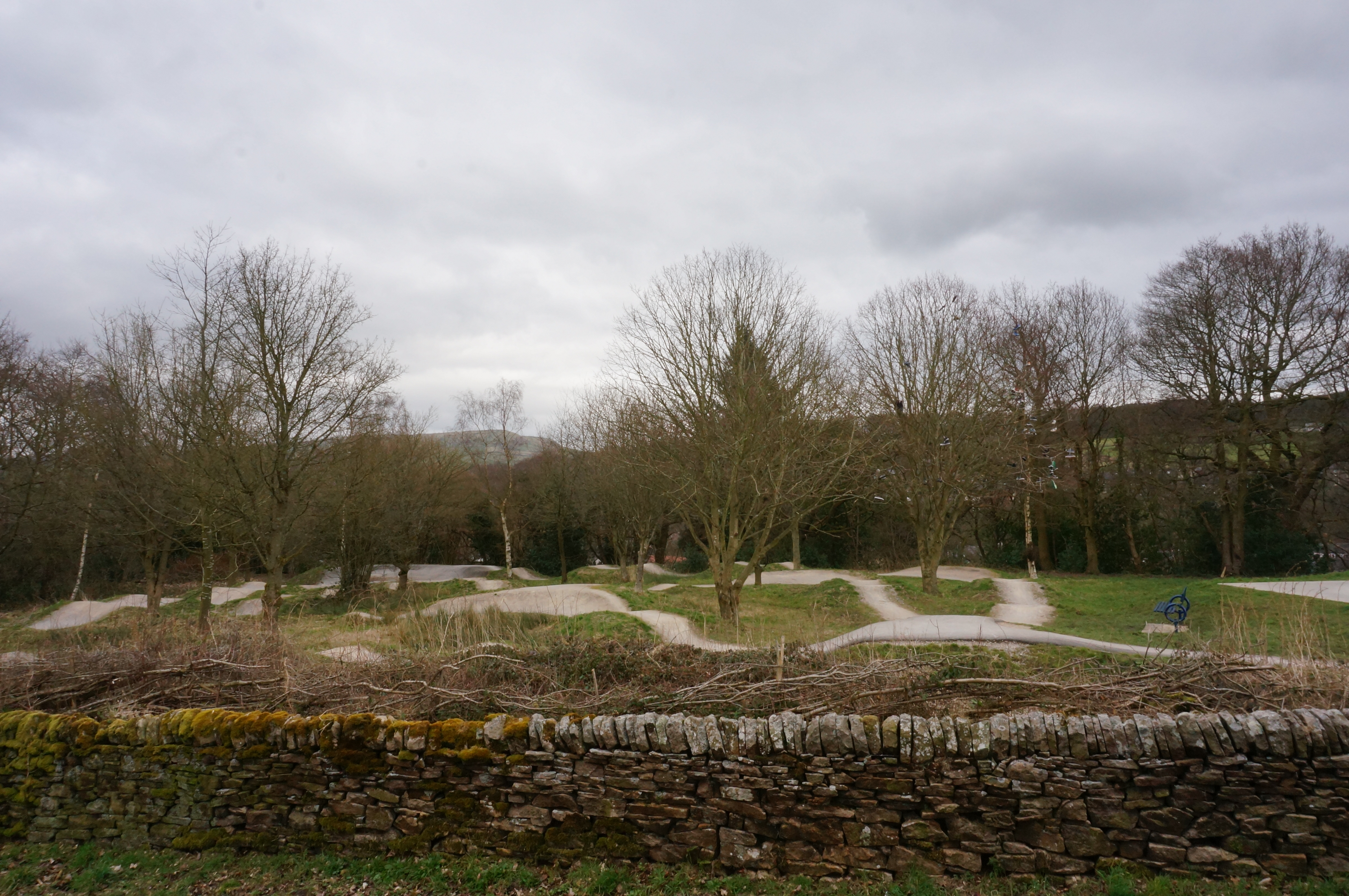 Pump track facility in Whaley Bridge Memorial Park in Derbyshire, Great Britain